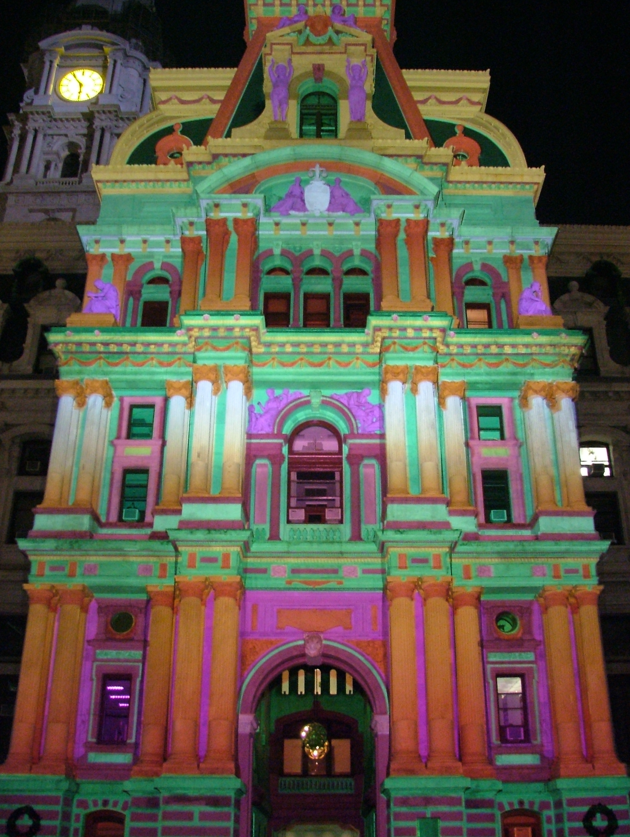 Philadelphia City Hall decorated for the holidayslike a set from the nutcracker, sort of